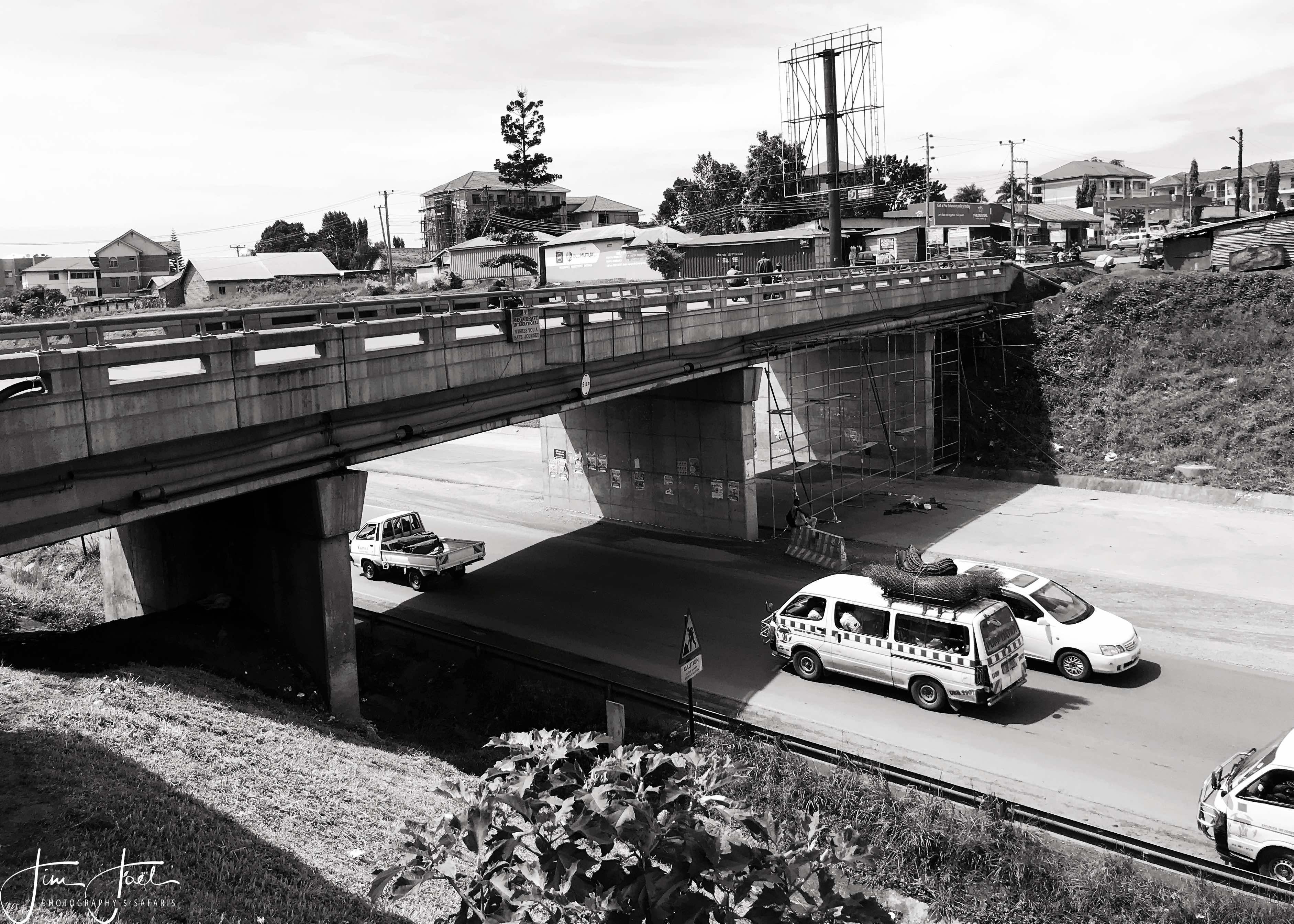 The Northern by pass road bridge junction at kiwatule, Kampala This is an image with the theme "Africa on the Move or Transport" from: Uganda